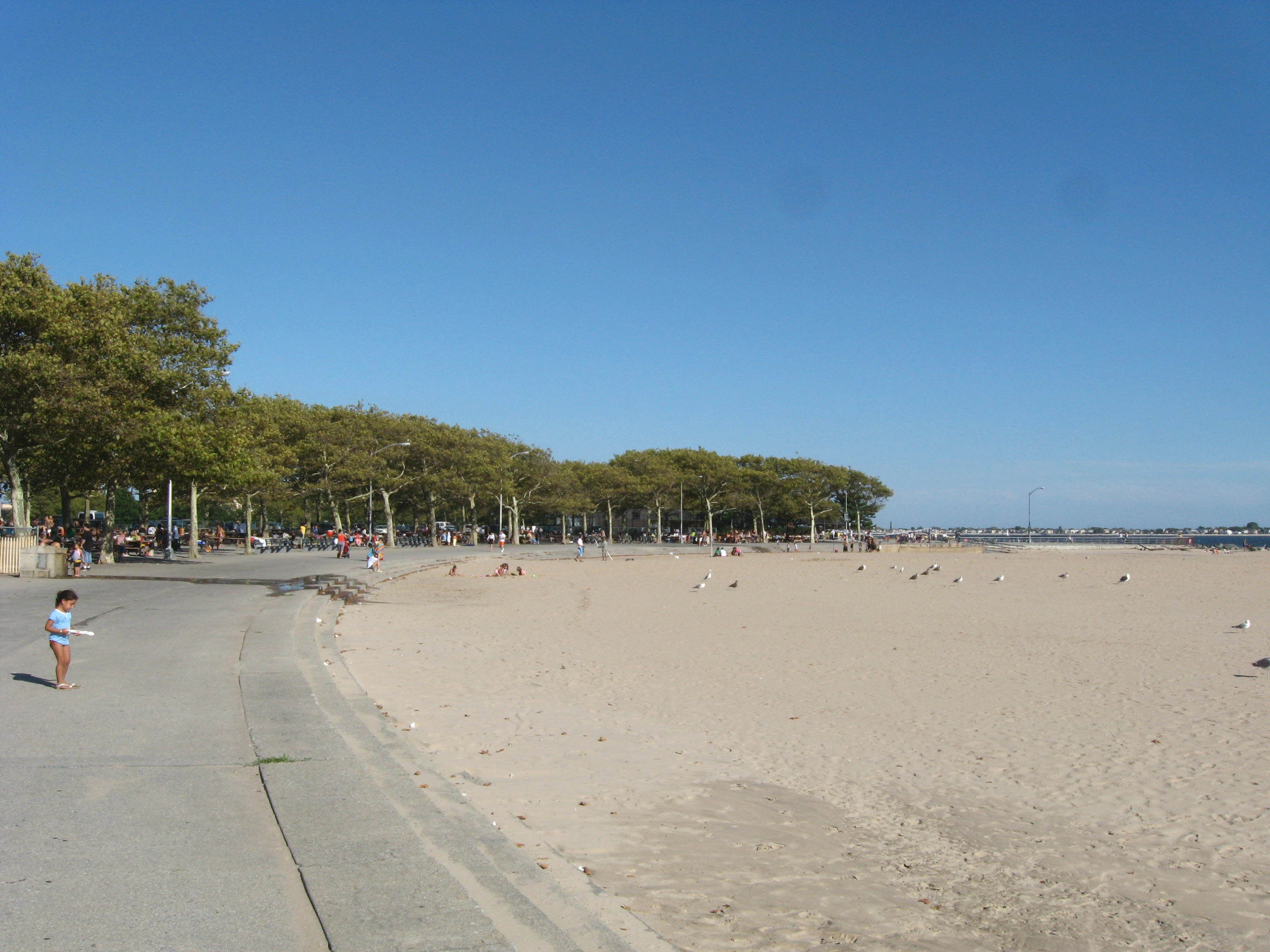 Looking east on Manhattan Beach public beach on a sunny afternoon. See File:MB Beach jeh.jpg for the same place half a year later.